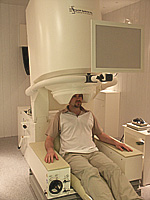 NIMH MEG Core Facility's main instrument, CTF MEG system, a whole-head SQUID magnetometer with 275 channels, capable of recording the magnetic field of the brain at very high spatial and temporal resolution. At the time it was installed, in mid-2002, it was the largest system of its kind in the world, and still ranks as a world-class device.